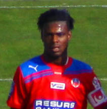 Joseph Baffo